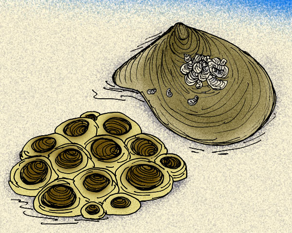 Reconstructions of the Niobraran bivalves Volviceramus grandis, Pseudoperna congesta, and the rudistid, Durania maxima. From the late Cretaceous (C) Stanton F. Fink